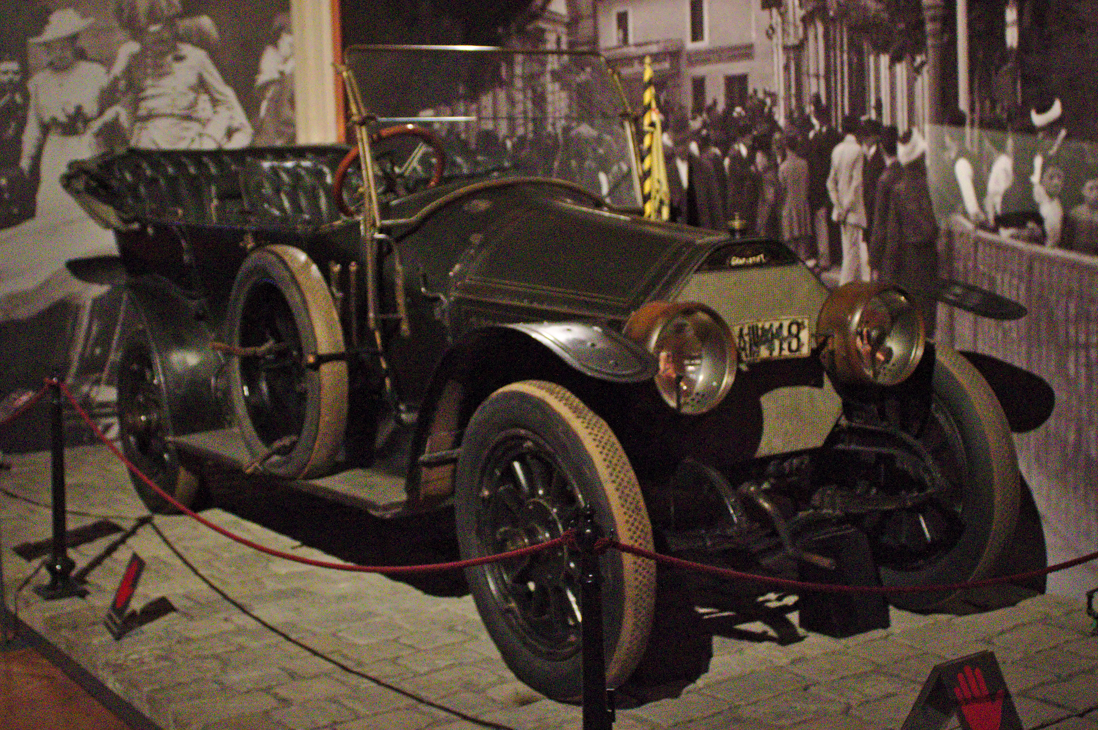 Graef & Stift 28-32 PS Double Phaeton in the Heeresgeschichtliches Museum